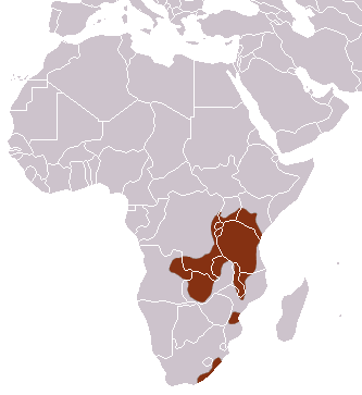 Southern Tree Hyrax (Dendrohyrax arboreus) range